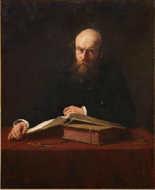 Portrait of Pierre J.H. Cuypers at age 60